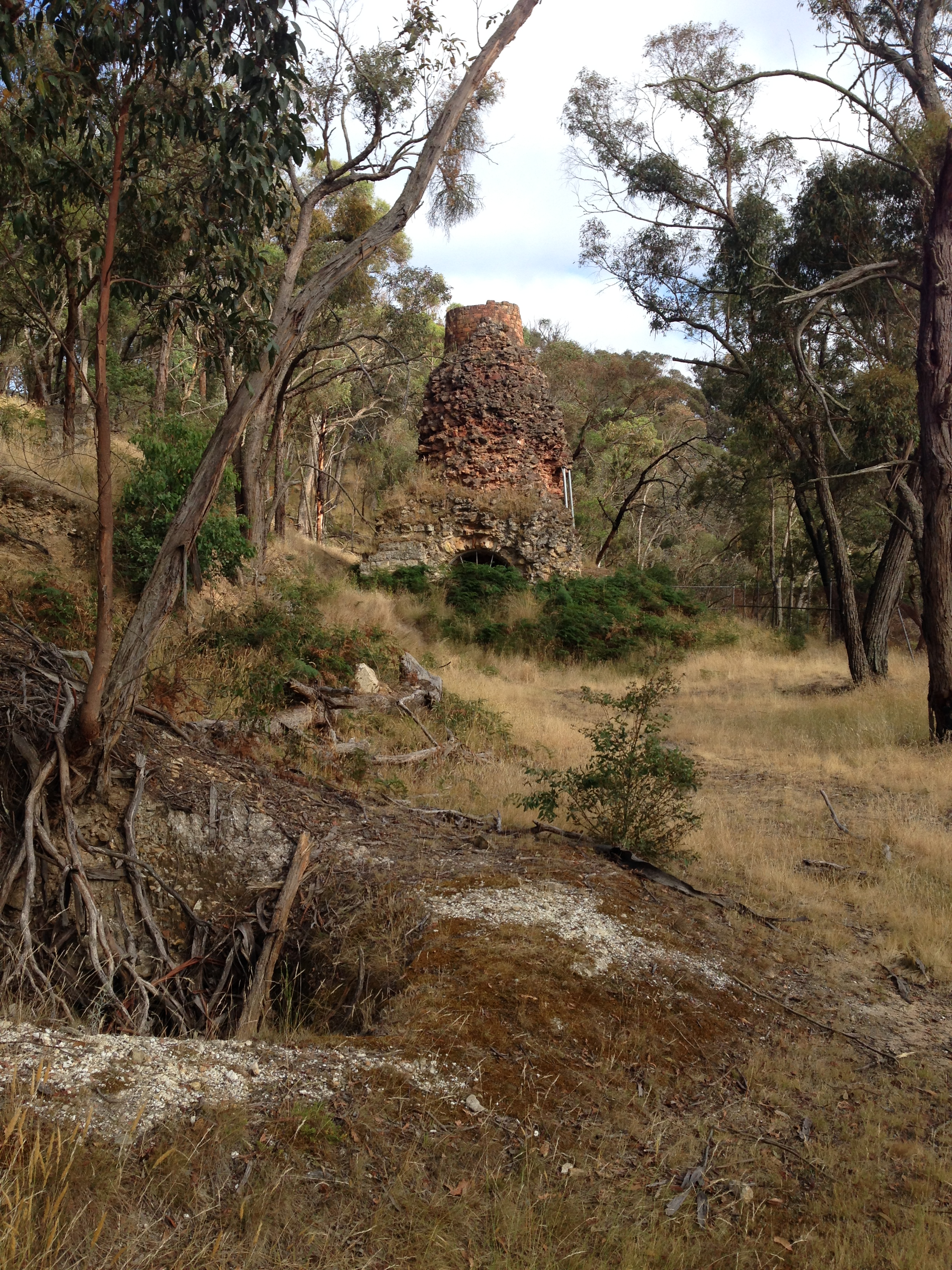 The former Lal Lal Iron Company blast furnace near Lal Lal, Victoria, Australia, was built in 1880 and produced pig iron until the company went out of business in 1884.